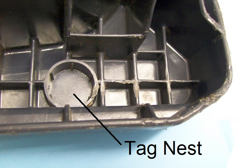 Circular nest (or pocket) moulded under lip of latest generation plastic waste bins, intended for RFID tag, viewed from below